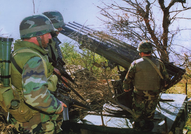 Hezbollah fighters man a 122 mm BM-21 grad rocket in the Iqlim at-Touffah region near the Israeli security belt in south Lebanon during a tour of their positions for Western and local journalists.